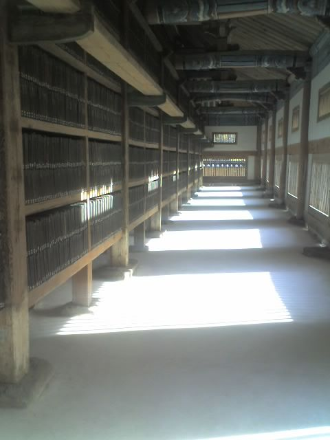 Picture of some of the 80.000 wooden blocks of the Tripitaka at Haeinsa temple in South Korea.